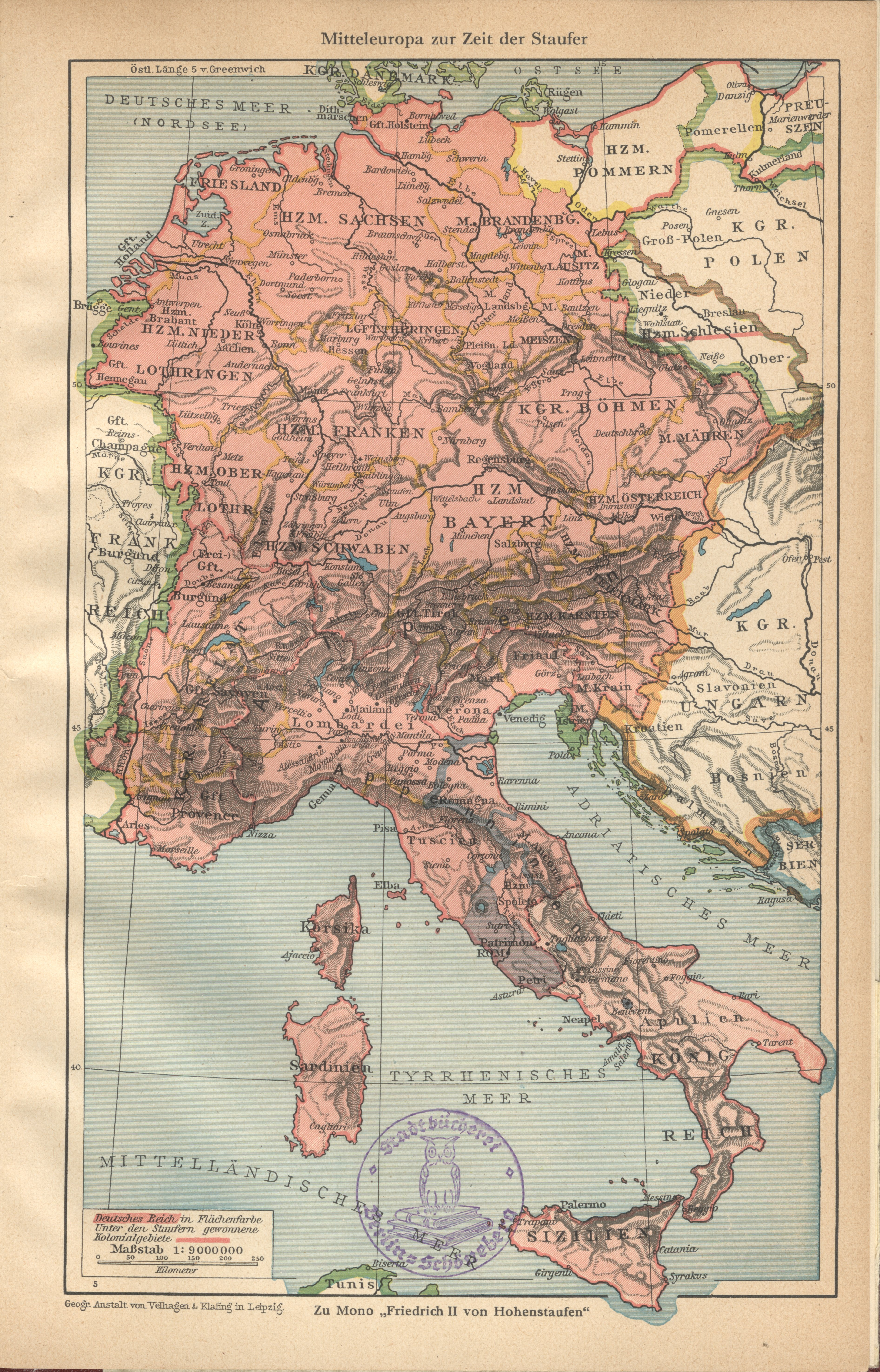 This is a scan of the historical document